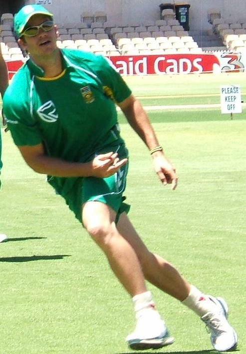 Albie Morkel at a training session at the Adelaide Oval